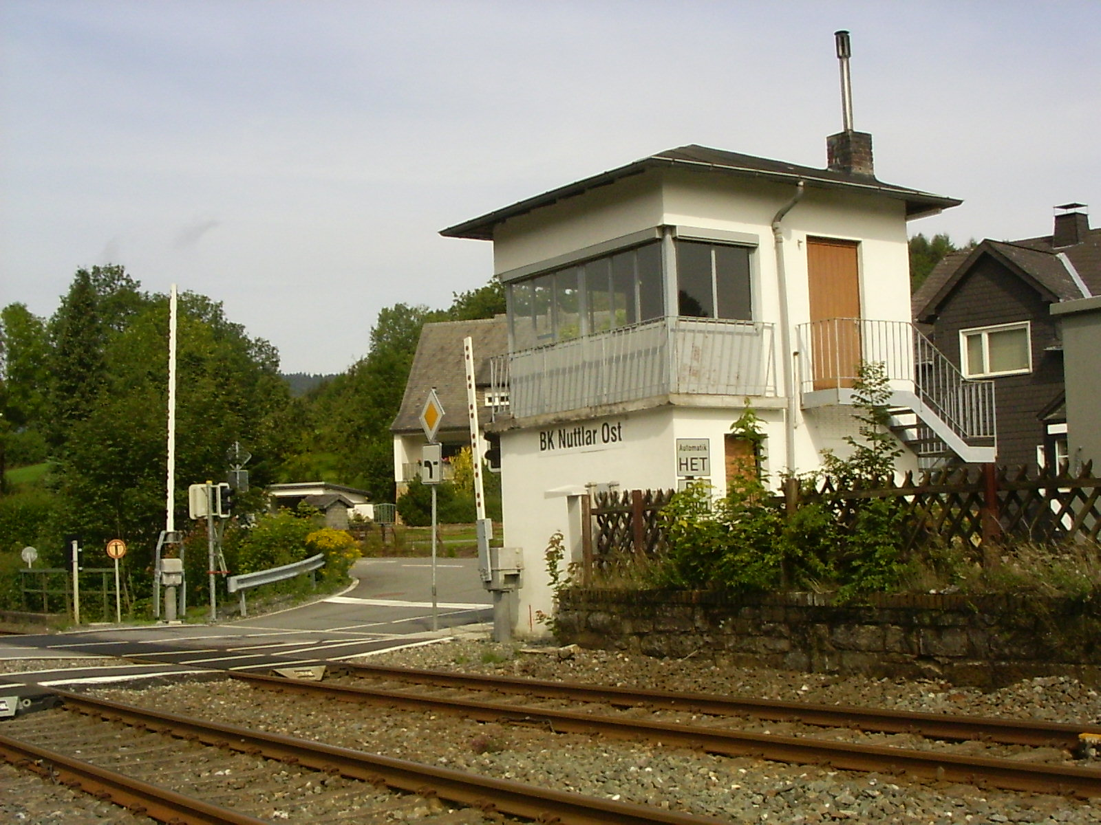 Level crossing Nuttlar Ost